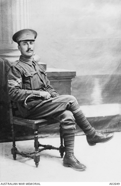 AWM caption: Studio portrait of Private (Pte) Thomas Cooke VC, 8th Battalion, of Richmond Vic and was killed in action on 28 July 1916. Pte Cooke was awarded his VC for most conspicuous bravery, after a Lewis gun had been disabled, he was ordered to take his gun and gun-team to a dangerous part of the line. Here he did fine work, but came under very heavy fire, with the result that finally he was the only man left. He still stuck to his post, and continued to fire his gun. When assistance was sent he was found dead beside his gun. He set a splendid example of determination and devotion to duty.